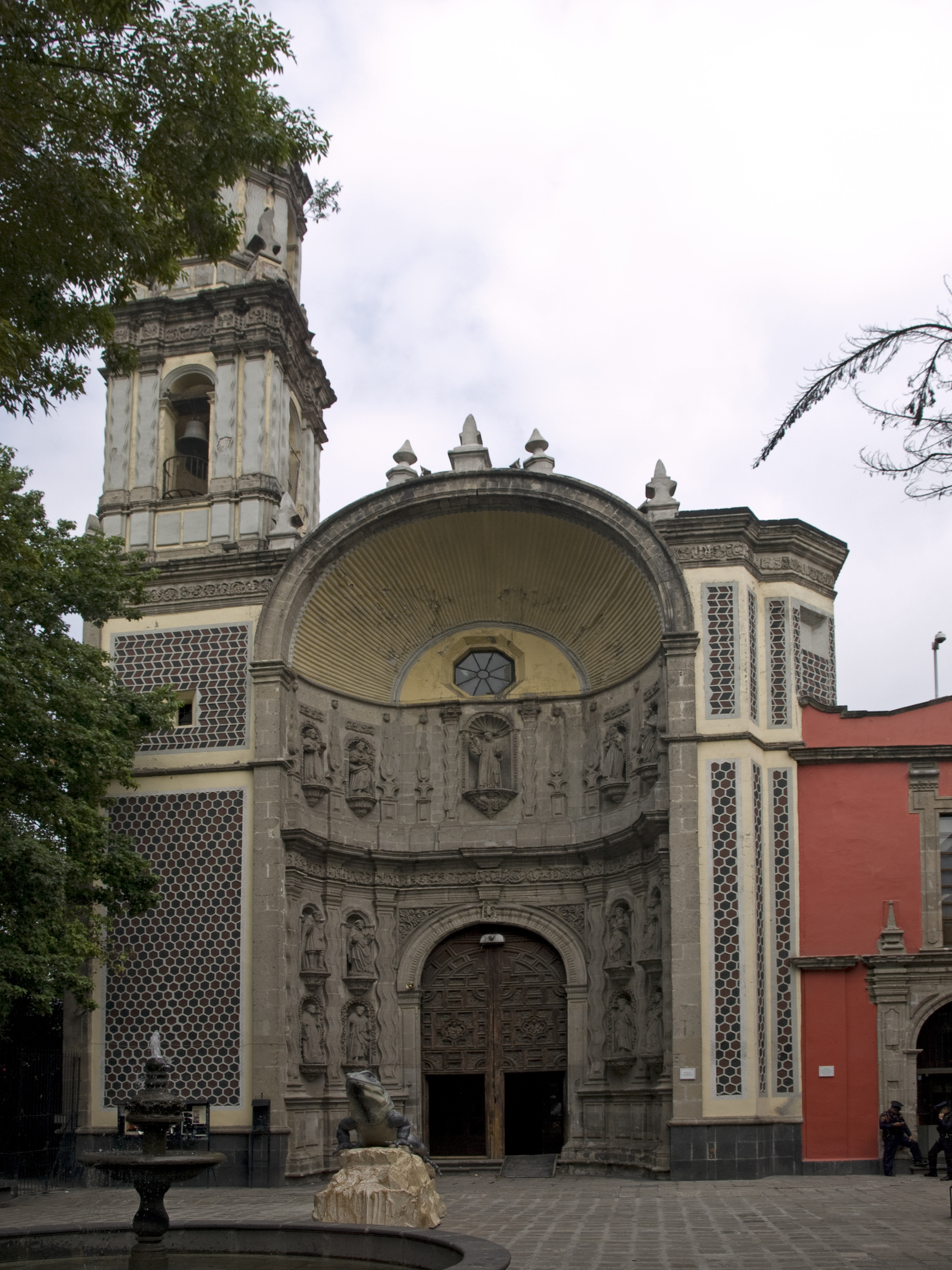 Entrance of the Temple San Juan de Dios, Hidalgo street, Mexico City. The red building to the right is the former hospital, currently Franz Meyer Museum